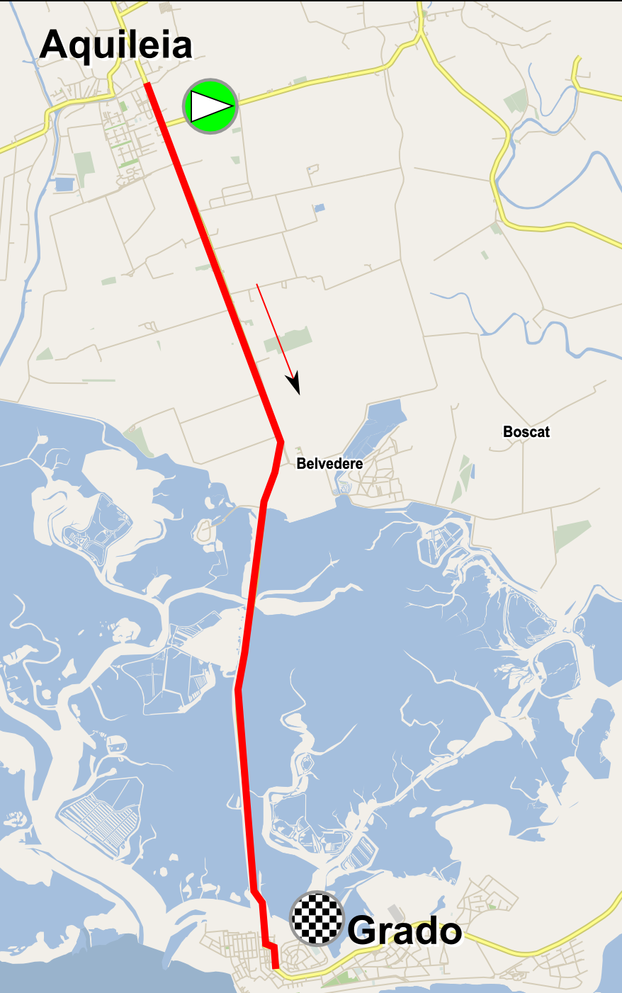 Map of stage 1 of Giro donne 2017.